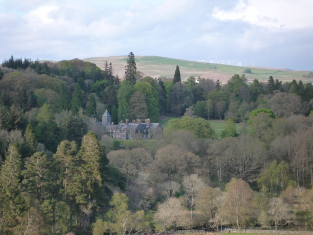 Knocknalling House, near to St. John's Town of Dalry Knocknalling:(c.1840): Gabled country house in mild Tudor style. Baronial stable block with clock tower (c.1880). Fine C19 barn. Windy Standard wind farm can be seen on the horizon.